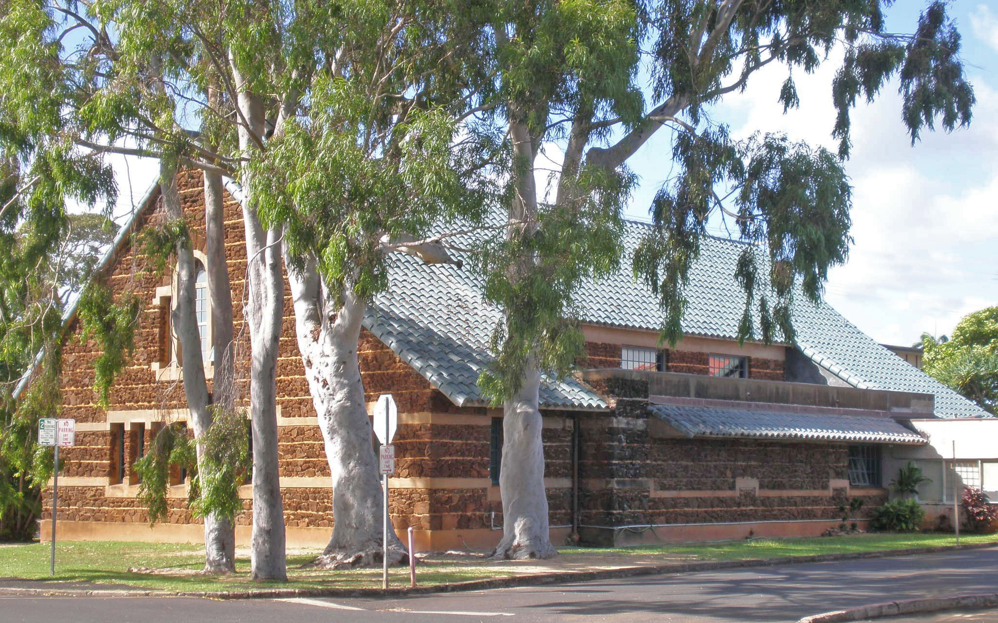 Rear corner view of Albert Spencer Wilcox Building, 4428 Rice St., Lihue, Kauai, on National Register of Historic Places, designed by Hart Wood in 1922, opened in 1924 as public library, converted to Kauai Museum in 1970